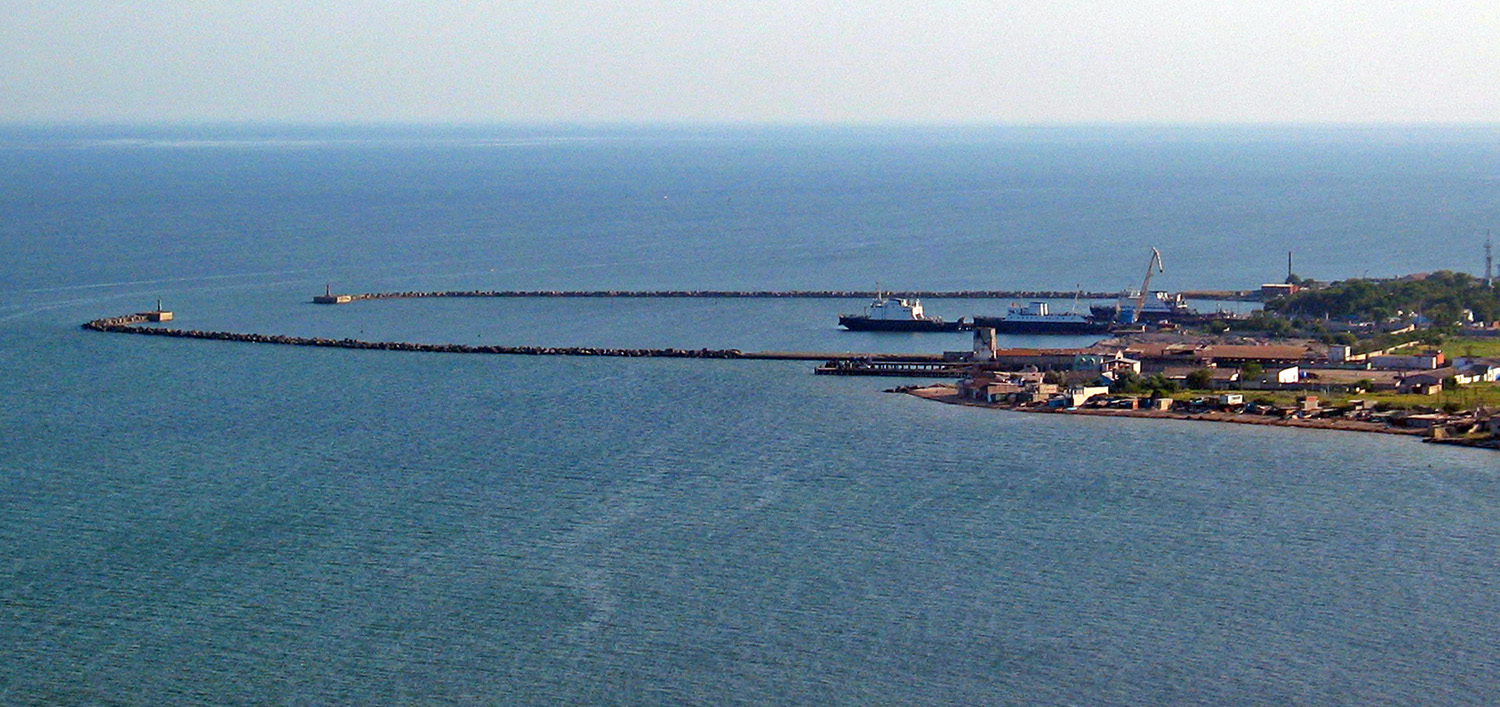 Kerch. Port Krym in 2004